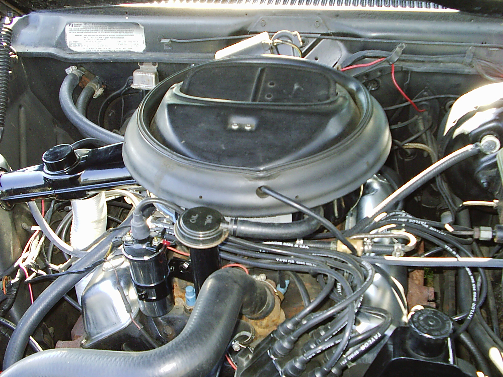 American Motor's 401 cubic inch displacement (6.6 L) V8 engine with ram air induction in a 1973 AMC Javelin AMX. This "pony car" has the factory "Go Package".